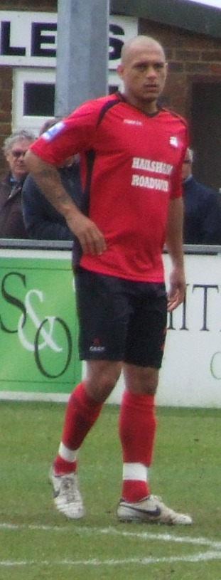 Dan Brown, a football player for Eastbourne Borough